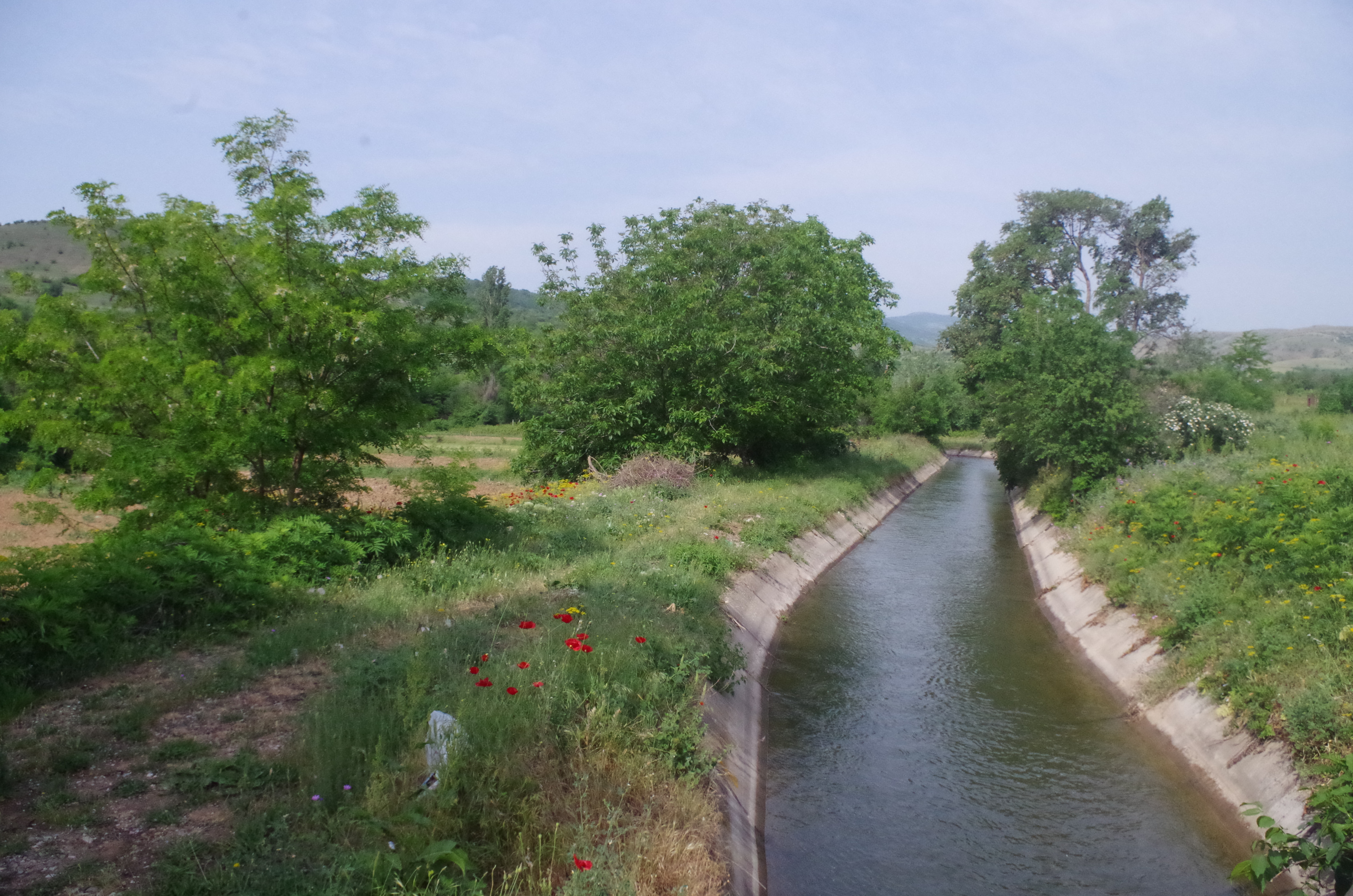 Canal of the Hydrosystem of Tikves, near Sirkovo, Macedonia